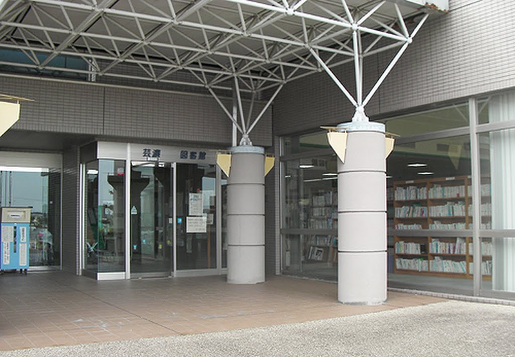 This is the Tsu city Geino Library in Tsu city Geino General Cultural Center, Geinocho-Mukumoto, Tsu, Mie, Japan.